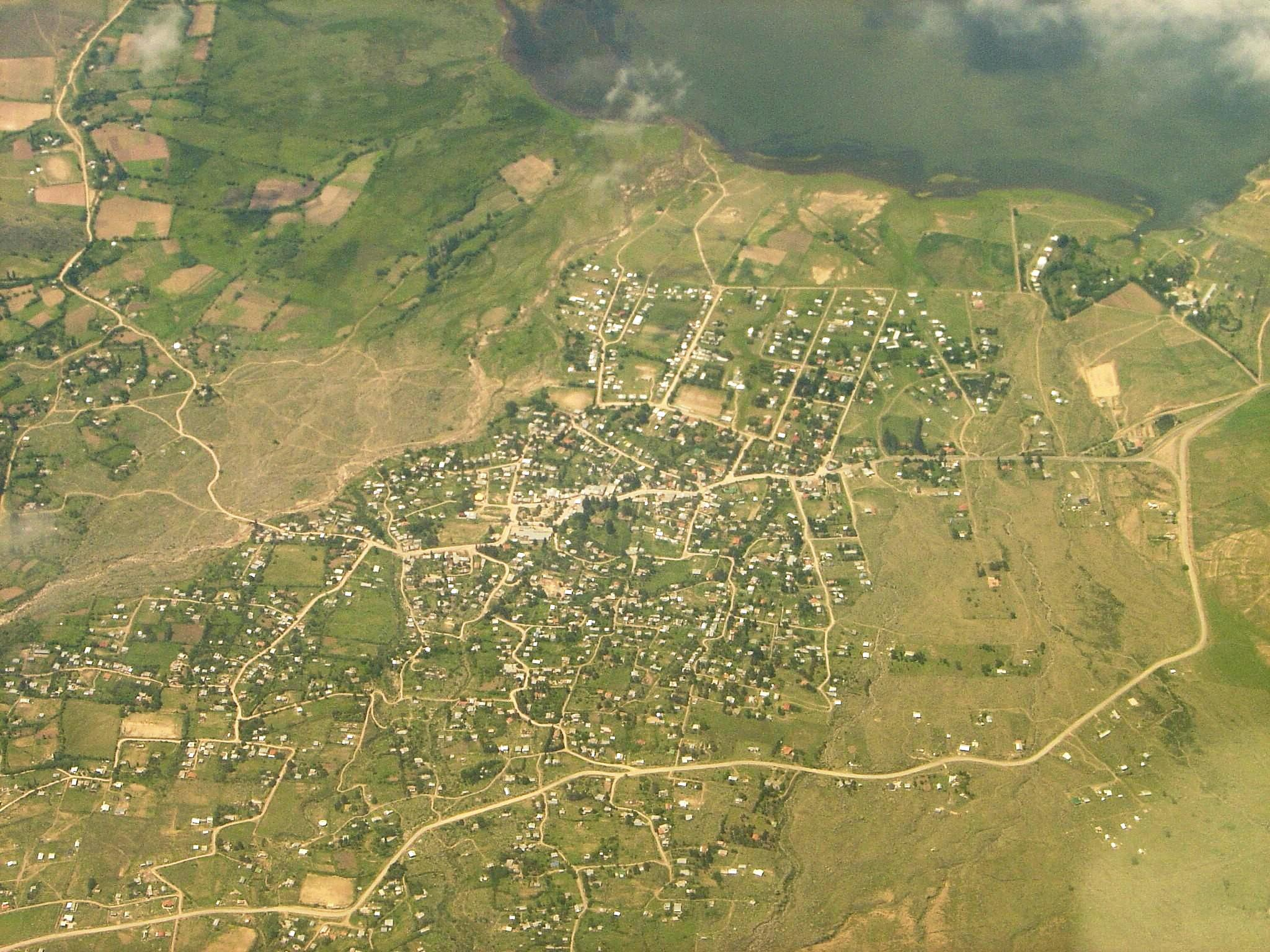 Aerial view of El Mollar, Tucuman province, Argentina.